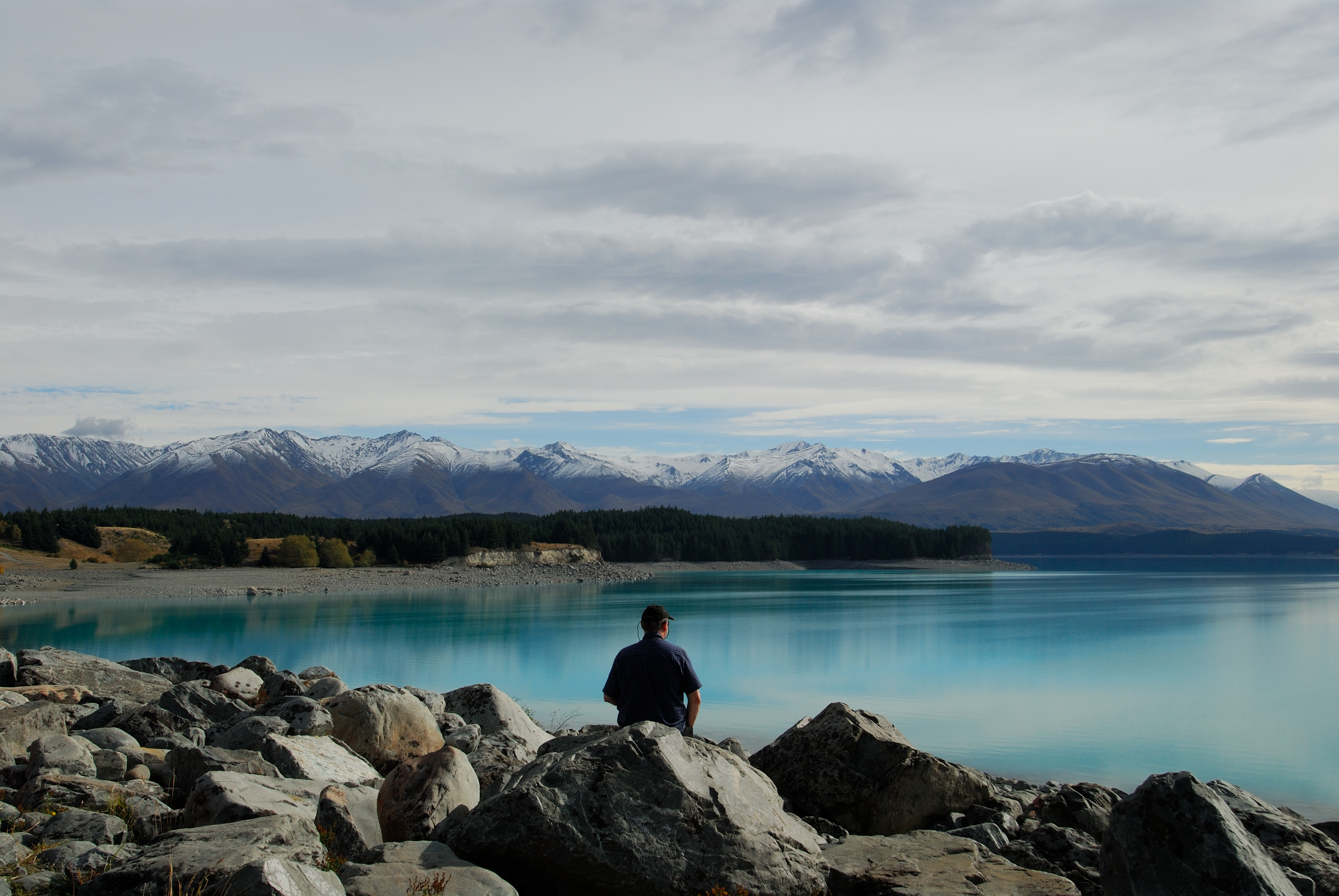 This lake is from Tasman Glacier in Mountain Cook.